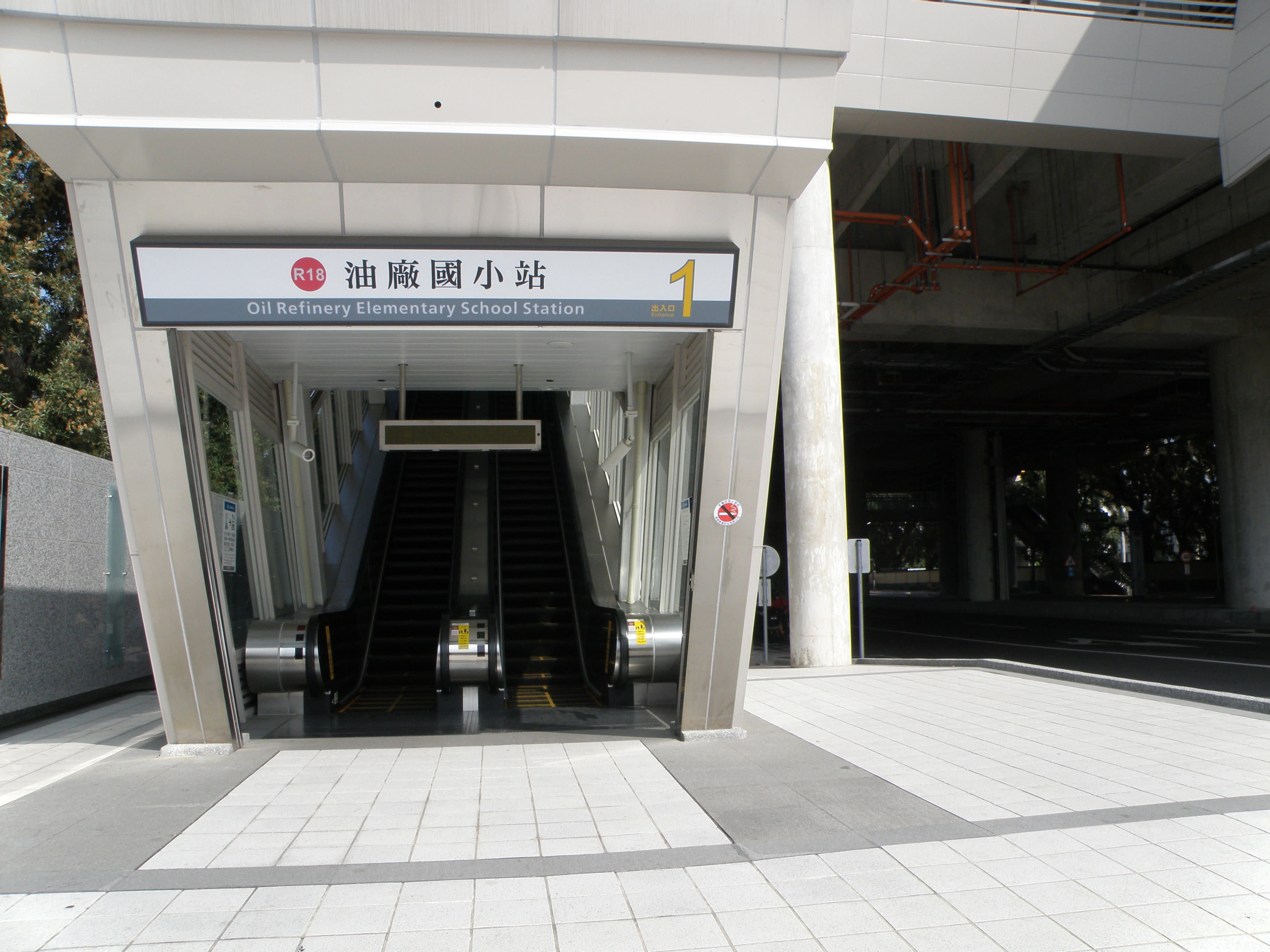 Exit No.1 of Oil Refinery Elementary School Station, Kaohsiung Mass Rapid Transit